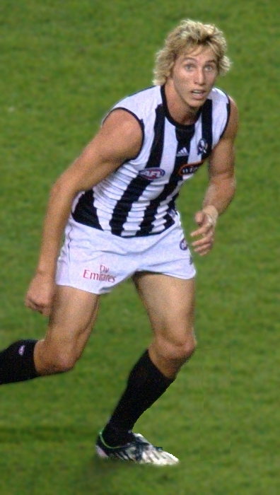 Dale Thomas during the 2nd round of the 2009 NAB Cup